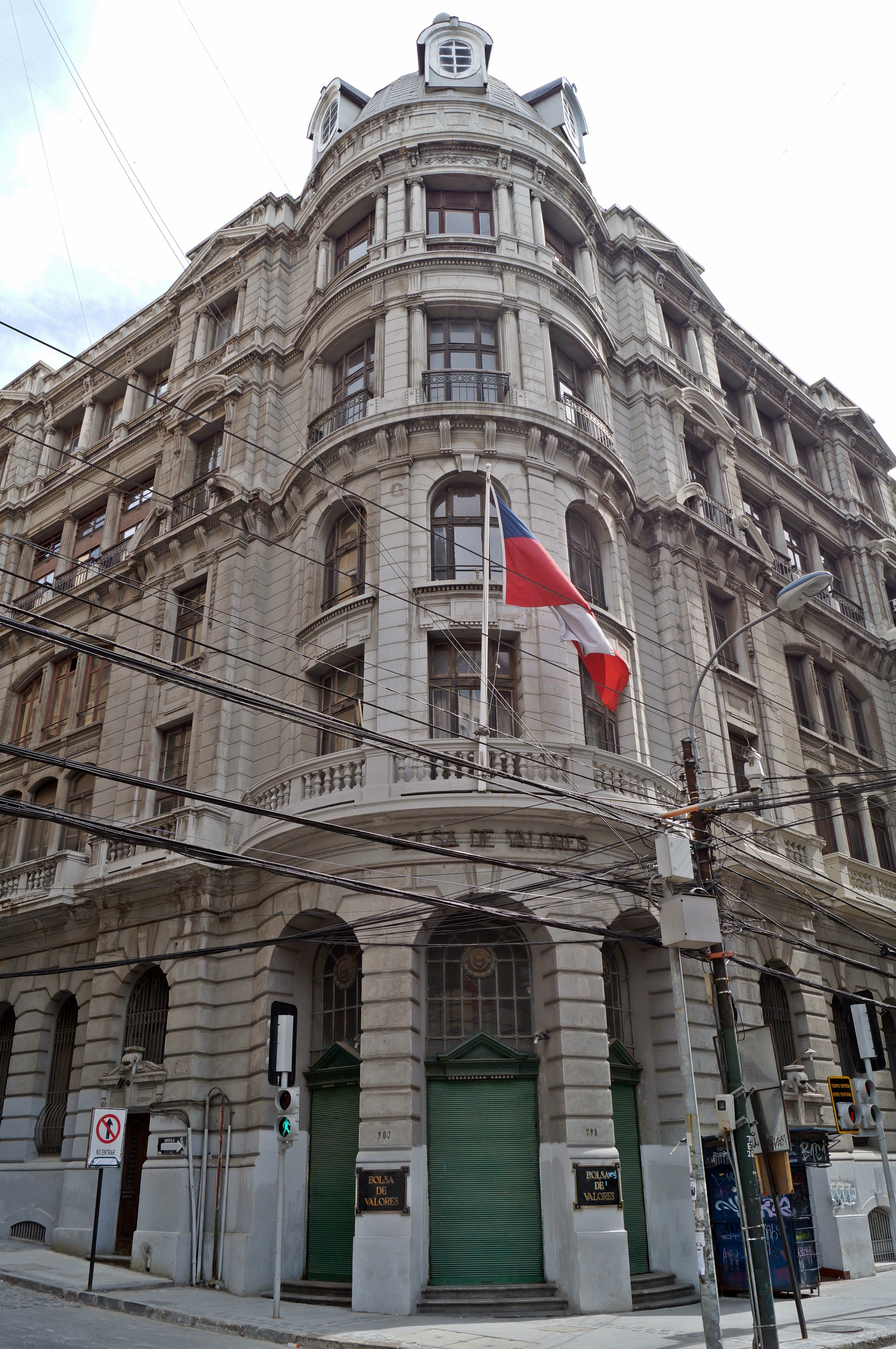 This is a photo of a national monument in Chile: 475